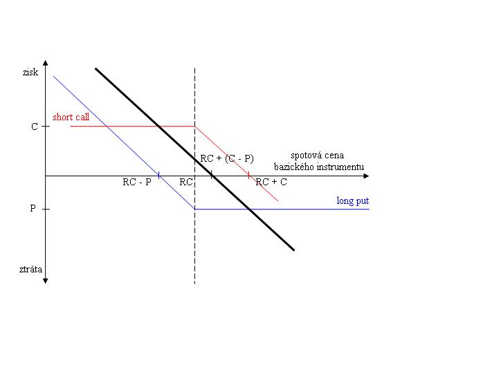 SYNTHETIC SHORT FORWARD